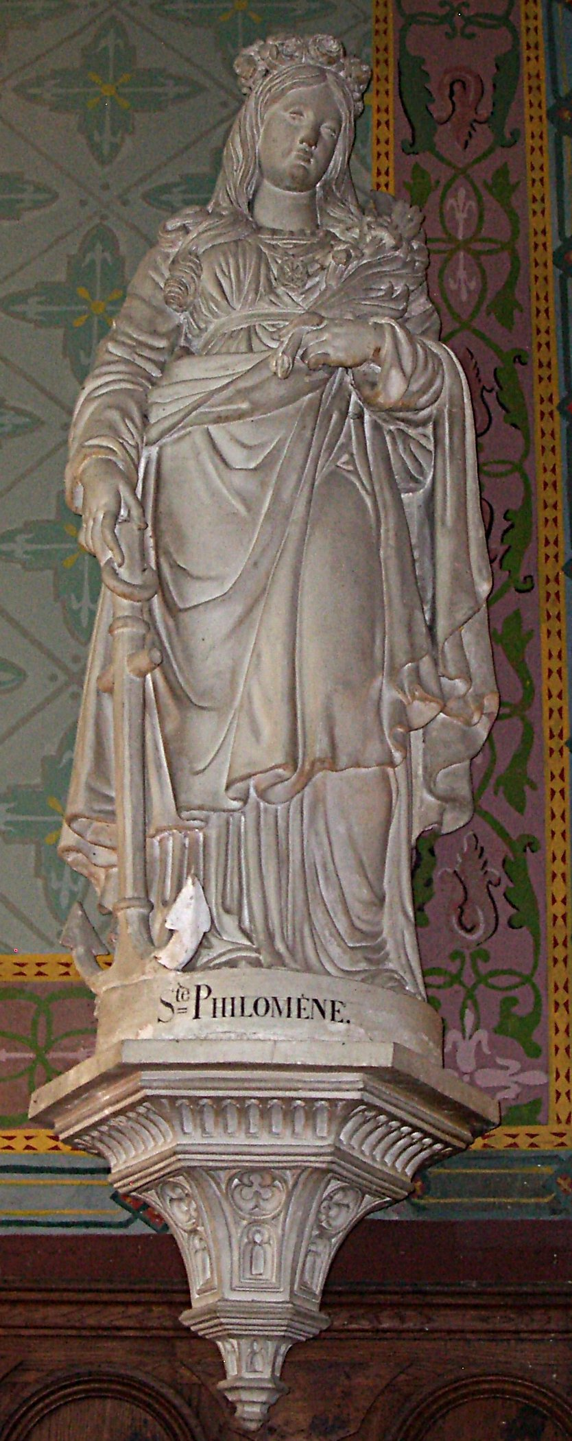 St. Philomena in St. Sulpitius church in Heudicourt, Eure. Stone, 19th century, unknown sculptor.